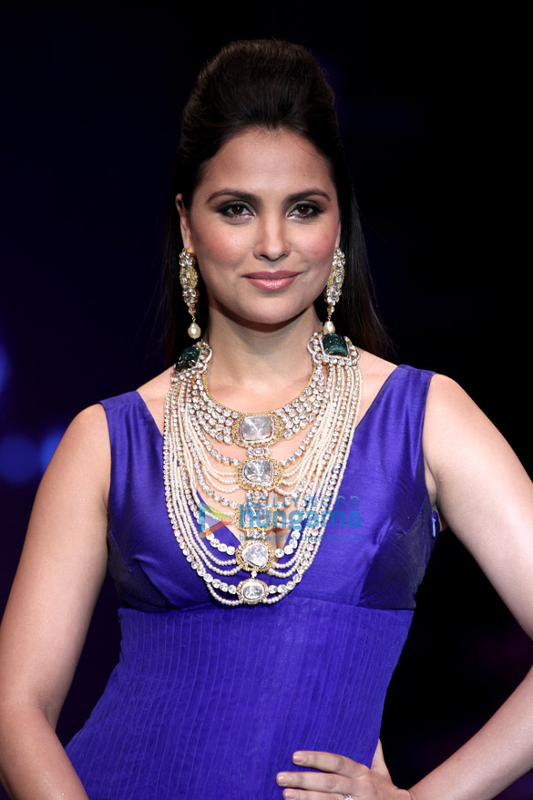 Lara Dutta walks for Birdhichand Ghanshyamdas at IIJW 2013